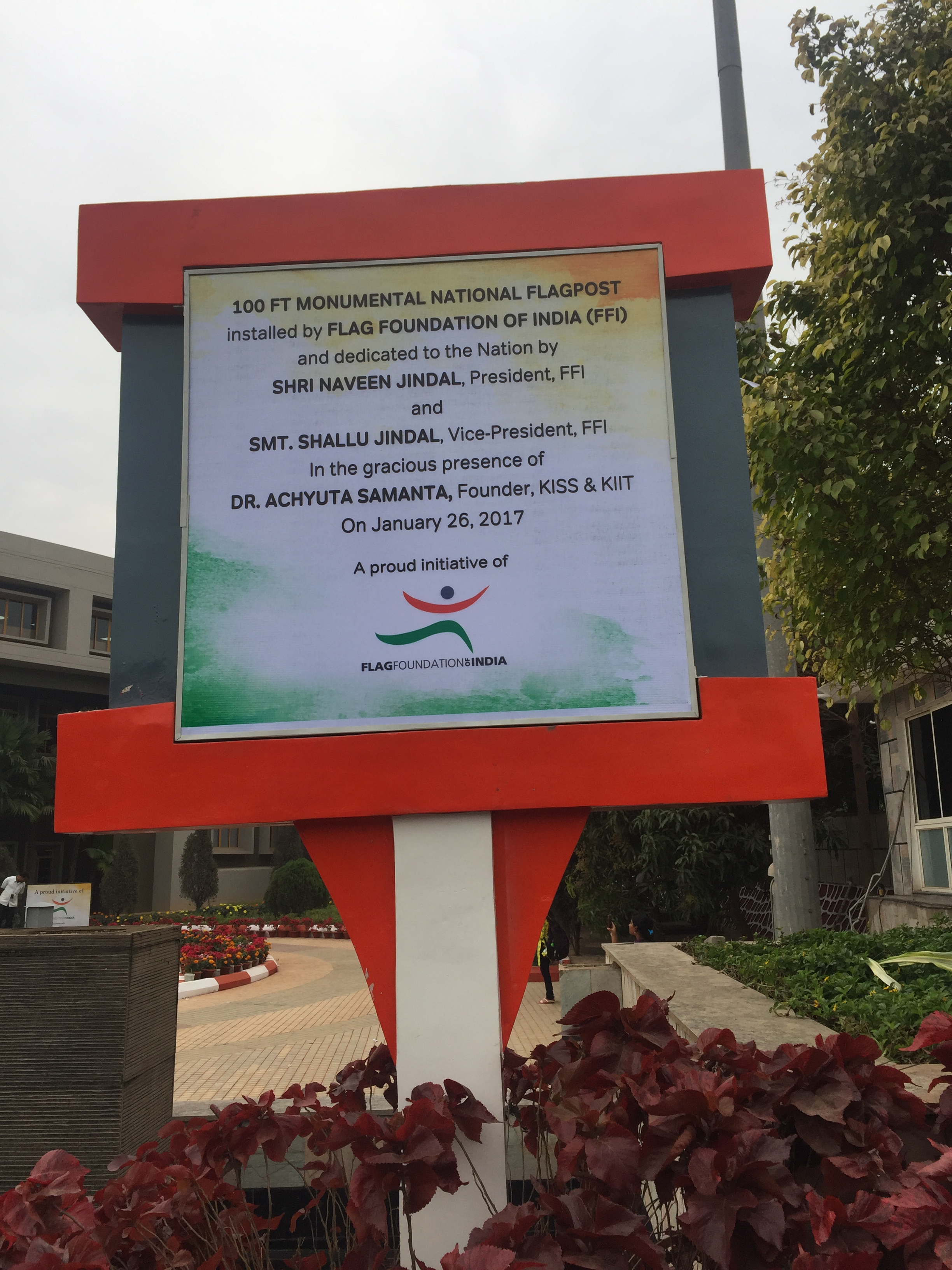 100ft flag inaugurated by Navin Jindal